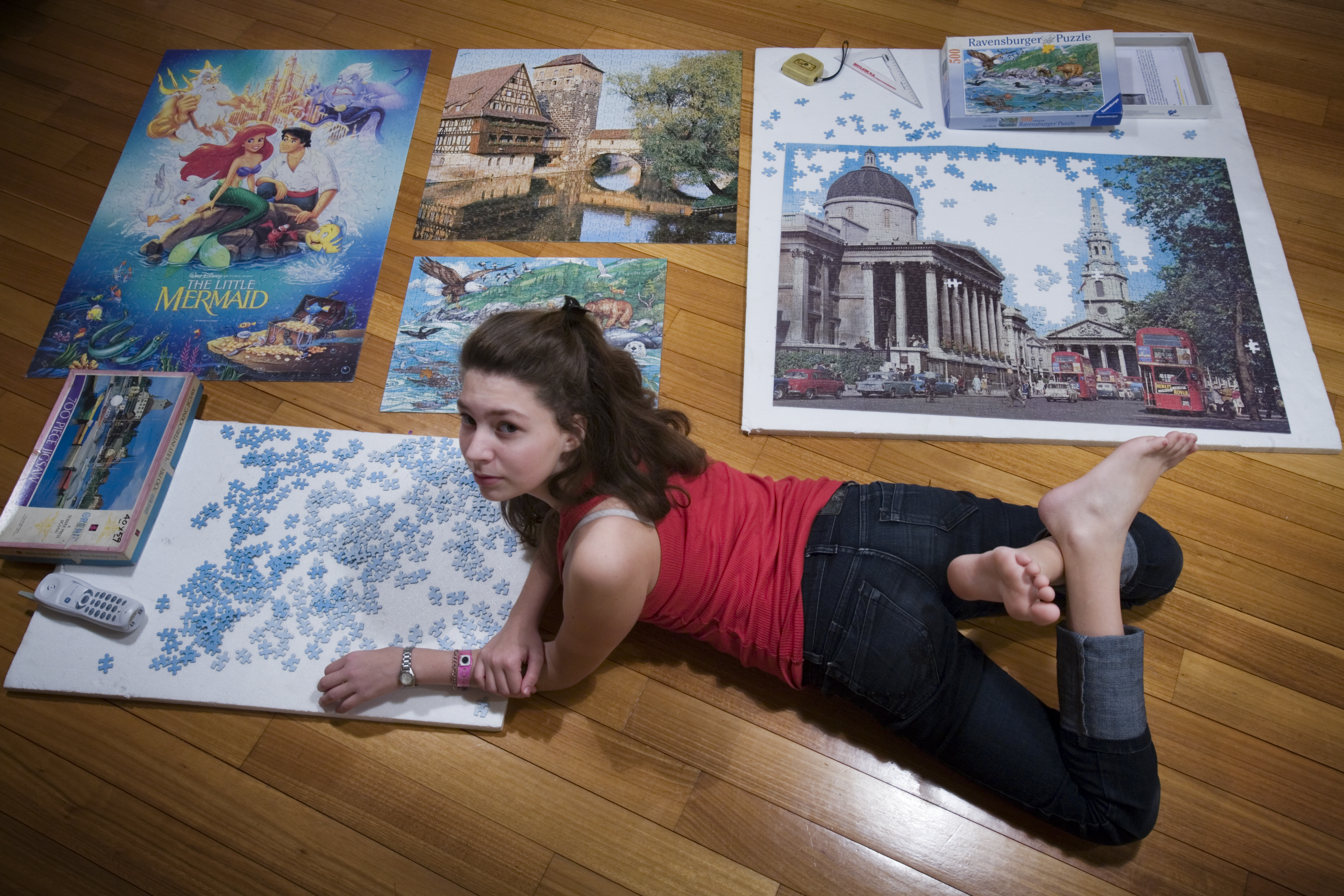 A young girl completing a jigsaw puzzle, with other finished puzzles around her.